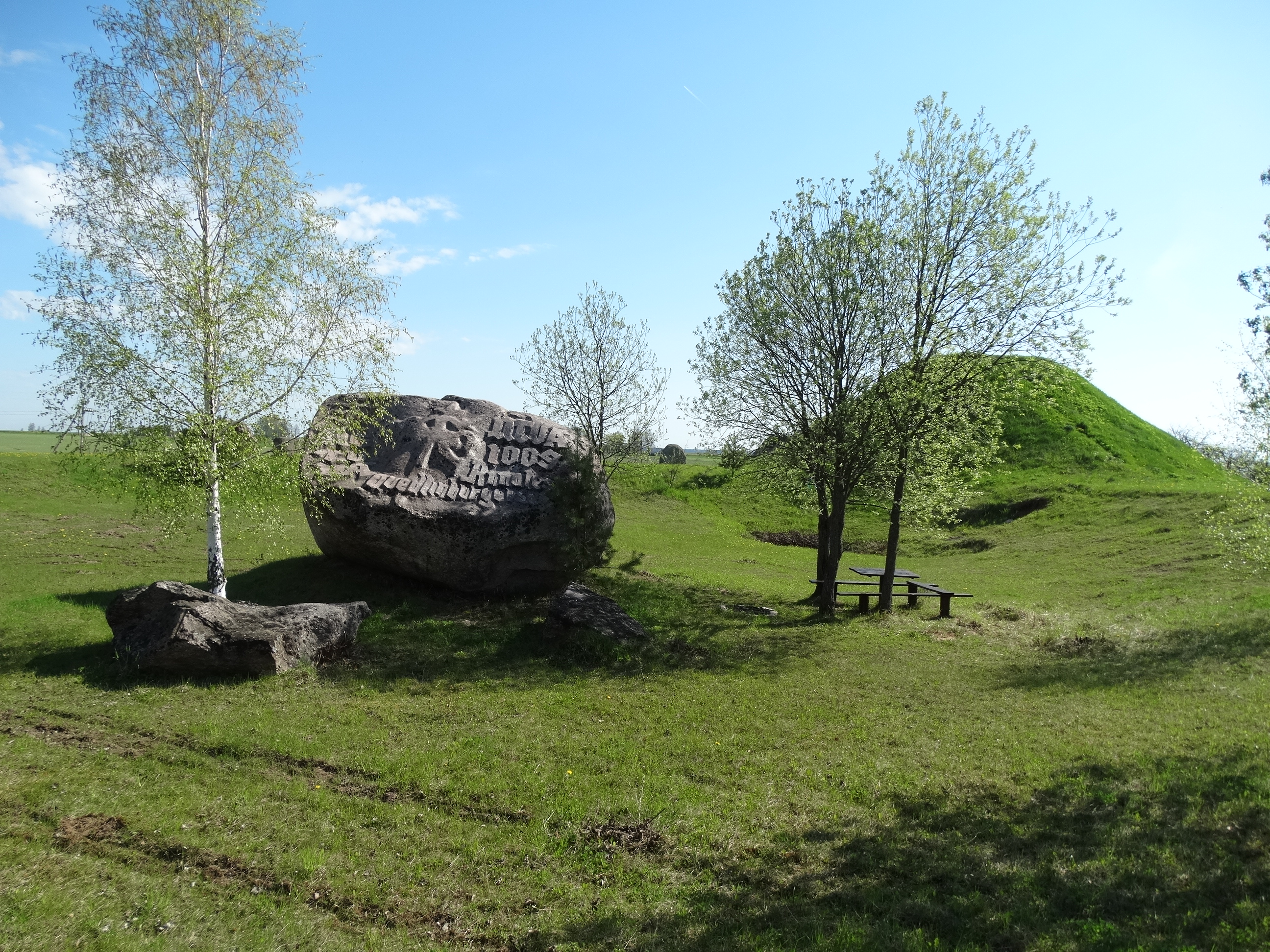 Stone in Rėžiai, Šalčininkai District, Lithuania